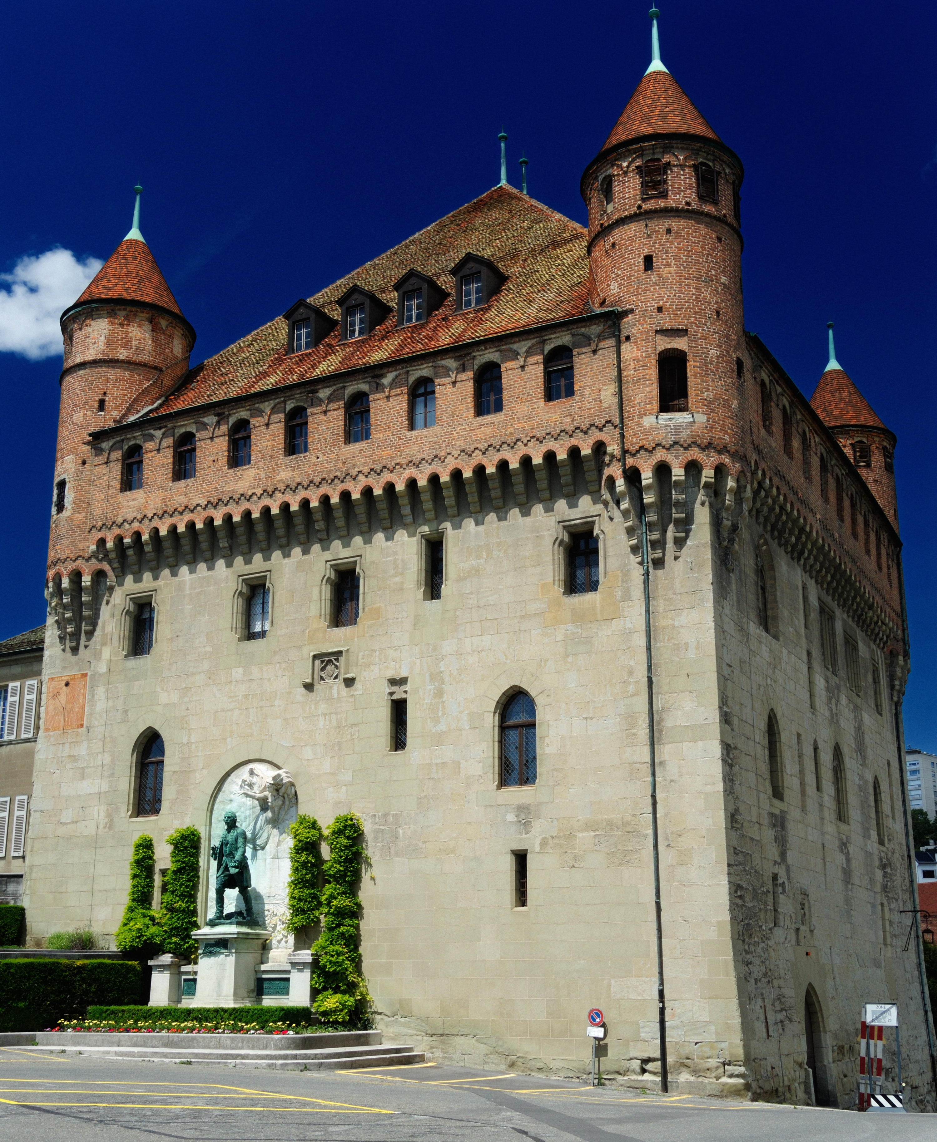 Château Saint-Maire, Lausanne